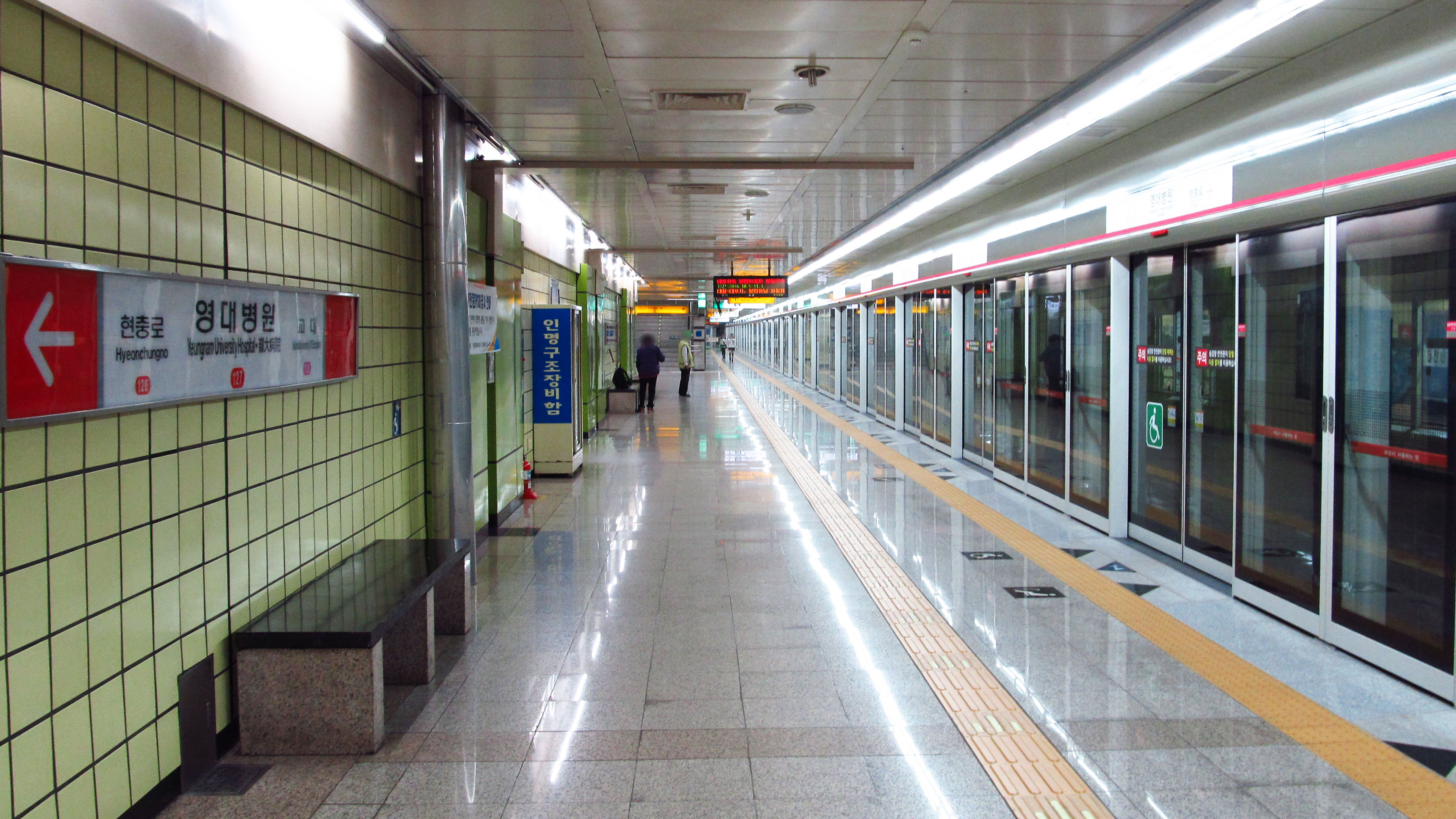 The platform of Yeungnam University Hospital Station on the Daegu Metro Line 1, for Hyeonchungno, Seolhwa-Myeonggok